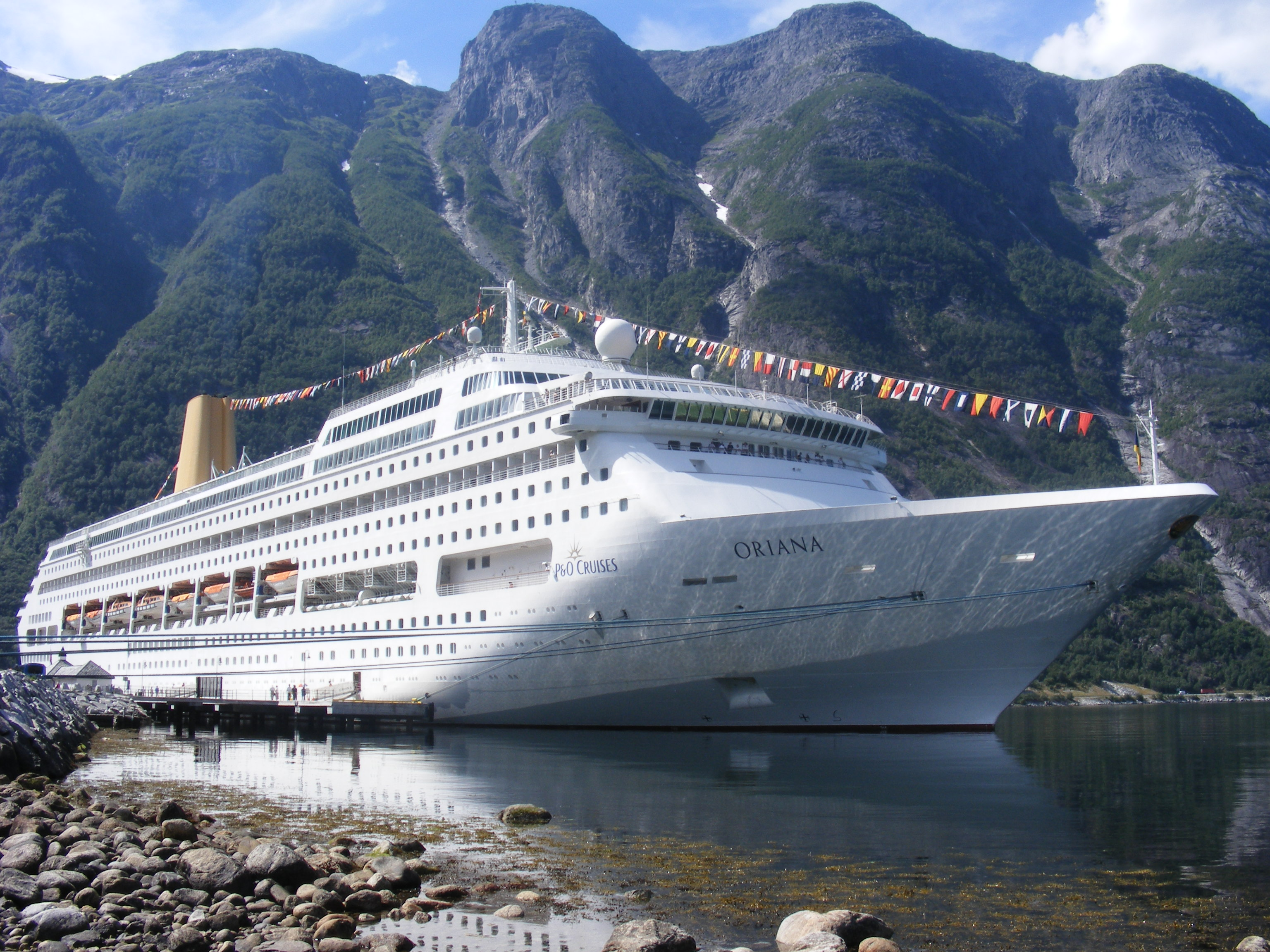 MV Oriana (1995) docked alongside in Eidfjord, Norway